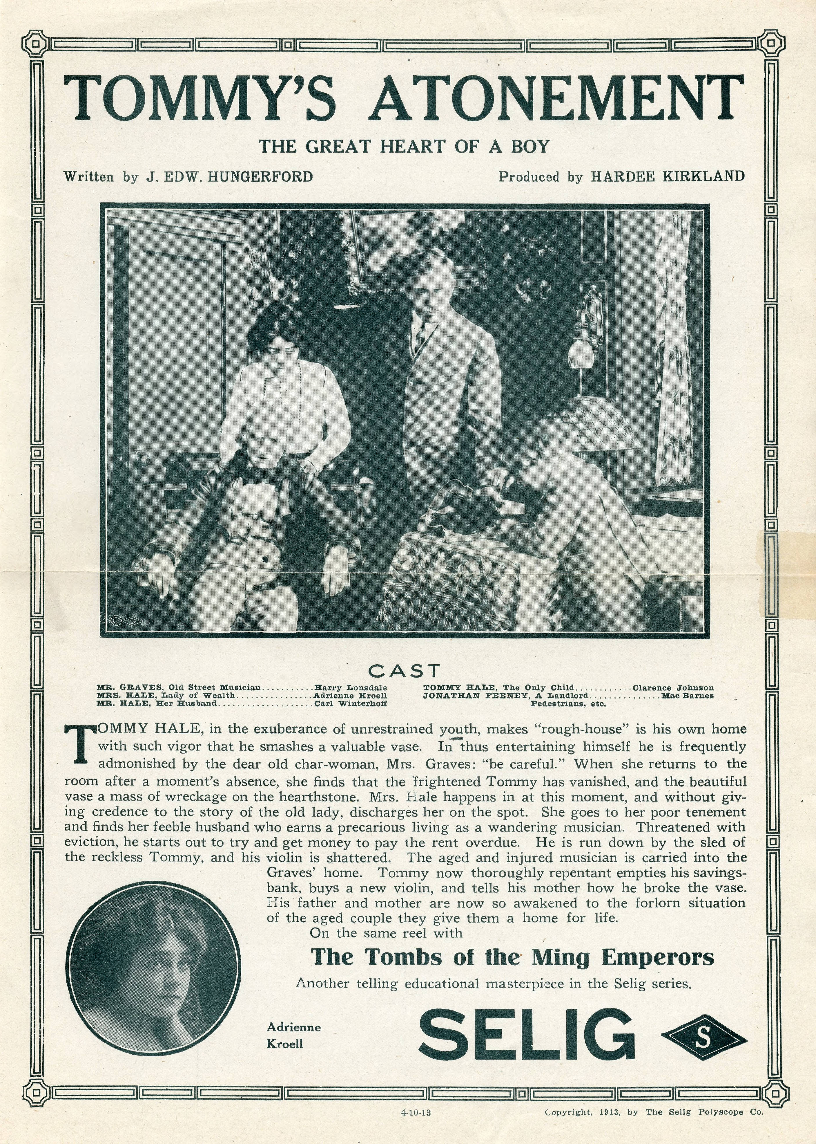 Release flier for TOMMY'S ATONEMENT, 1913 Actors depicted (left to right): Harry J. Lonsdale, Adrienne Kroell, Carl Winterhoff, and Clarence Johnson.